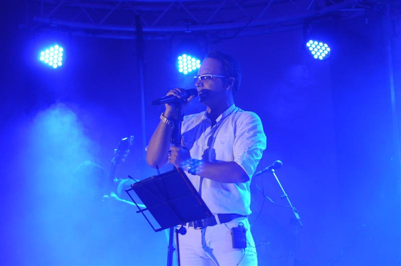 Shahram Shokoohi live in Concert in Rasht, Guilan, Iran. ALL Photos taken by Fahimeh Bagheri and Dontated to Wikicommons